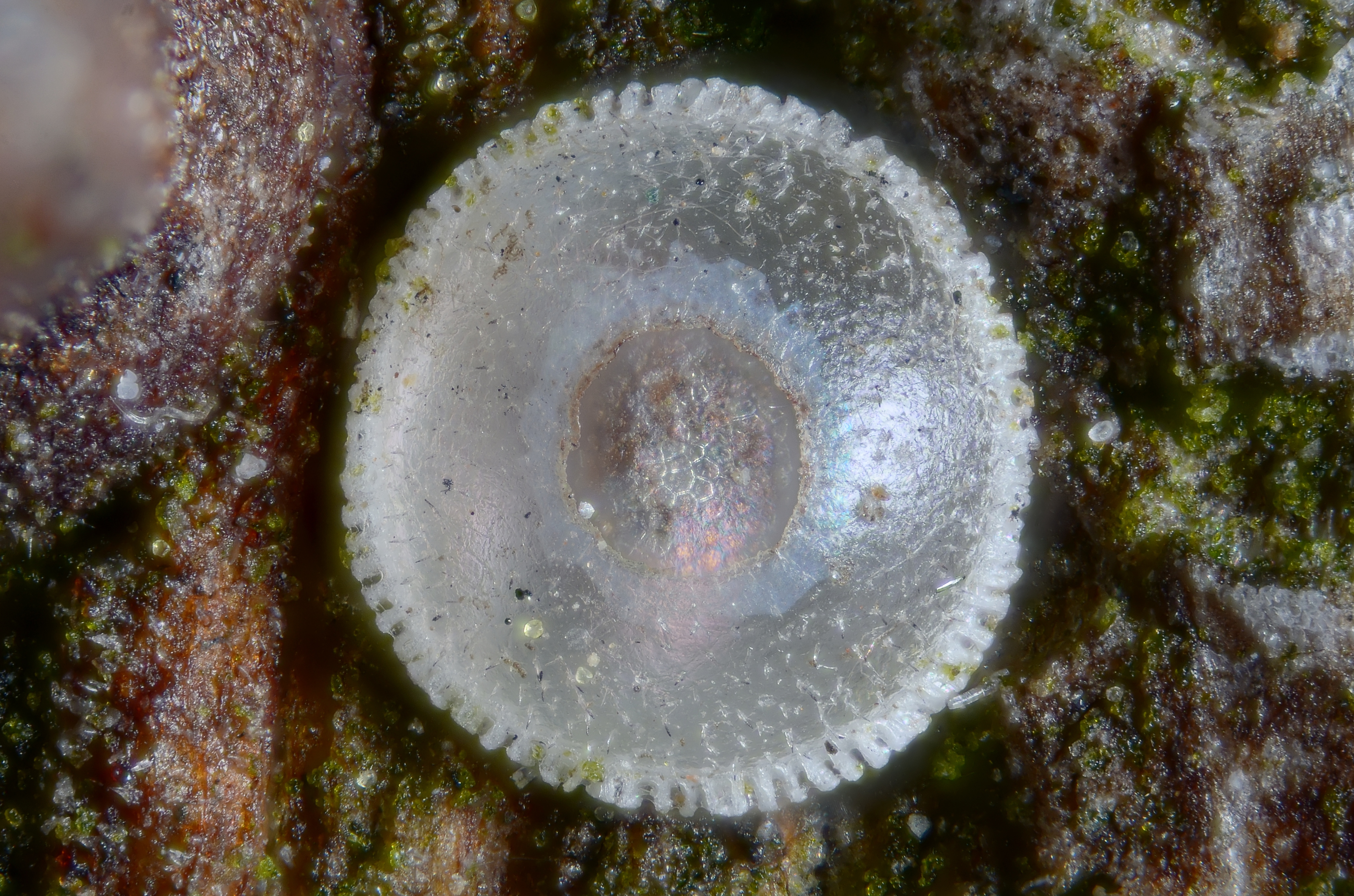 Egg (after hatching) of the butterfly Satyrium w-album on an elm (Ulmus sp.) twig Scale : egg width = 1mm Technical settings : - focus stack of 51 images - microscope objective (Nikon achromatic 10x 160/0.25) on bellow